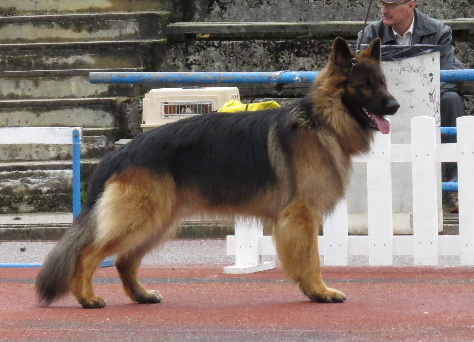 Tallinn, Estonia, duo CACIB 2013, August 17-18